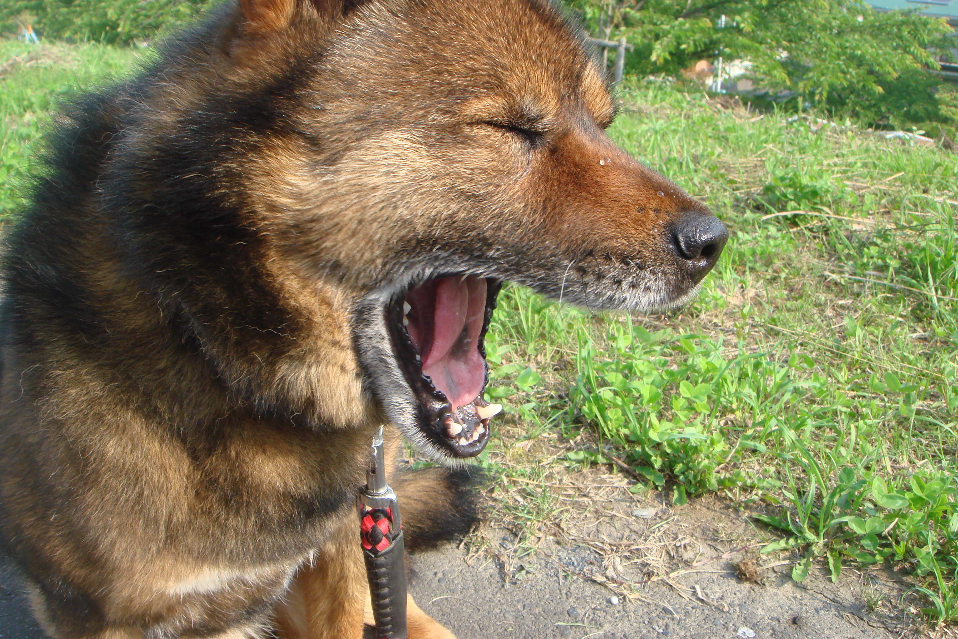 Yawning dog